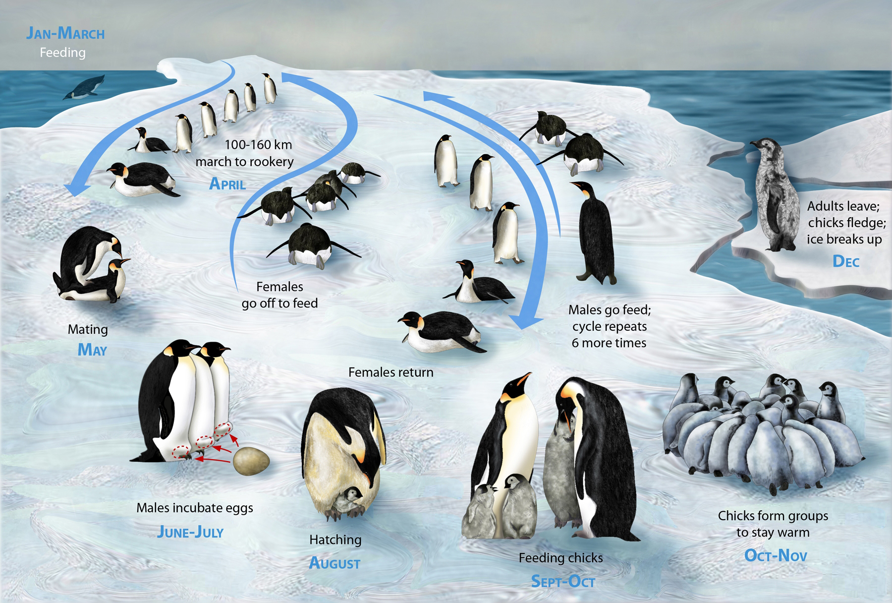 Lifecycle of the Emperor Penguin